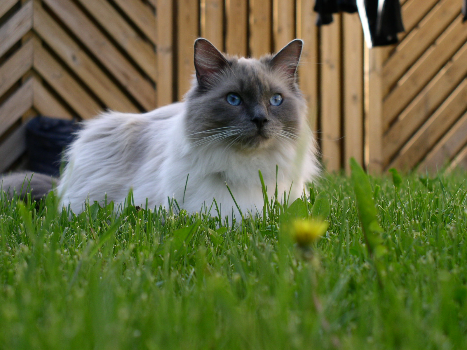 Ragdoll, blue mitted